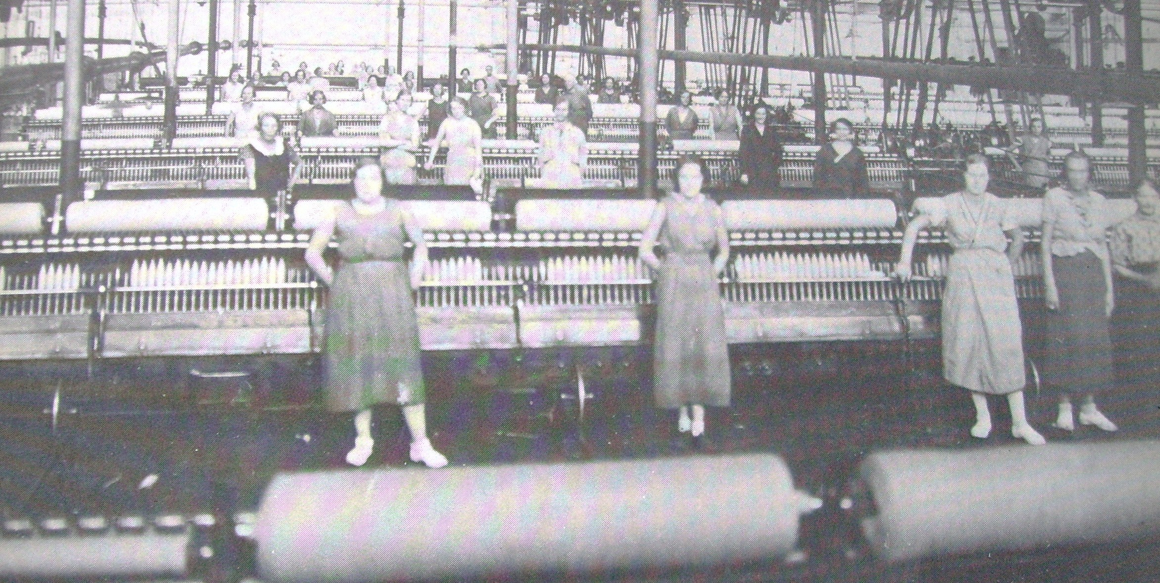 Picture of interior in Gårda fabriker in Göteborg in 1930s